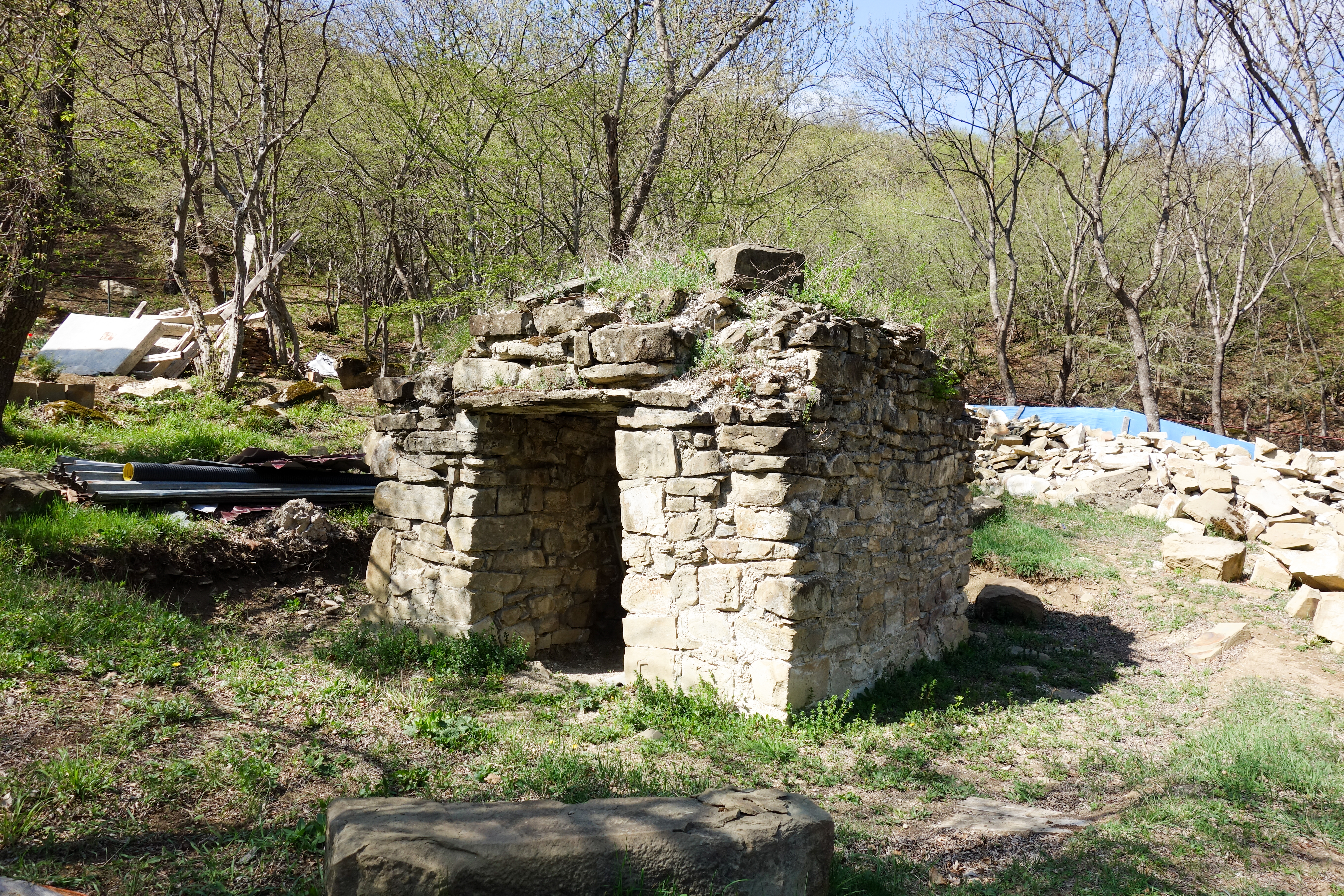 A ruined bell tower by St. Mary Church of Tsikhedidi, Dzegvi, Georgia